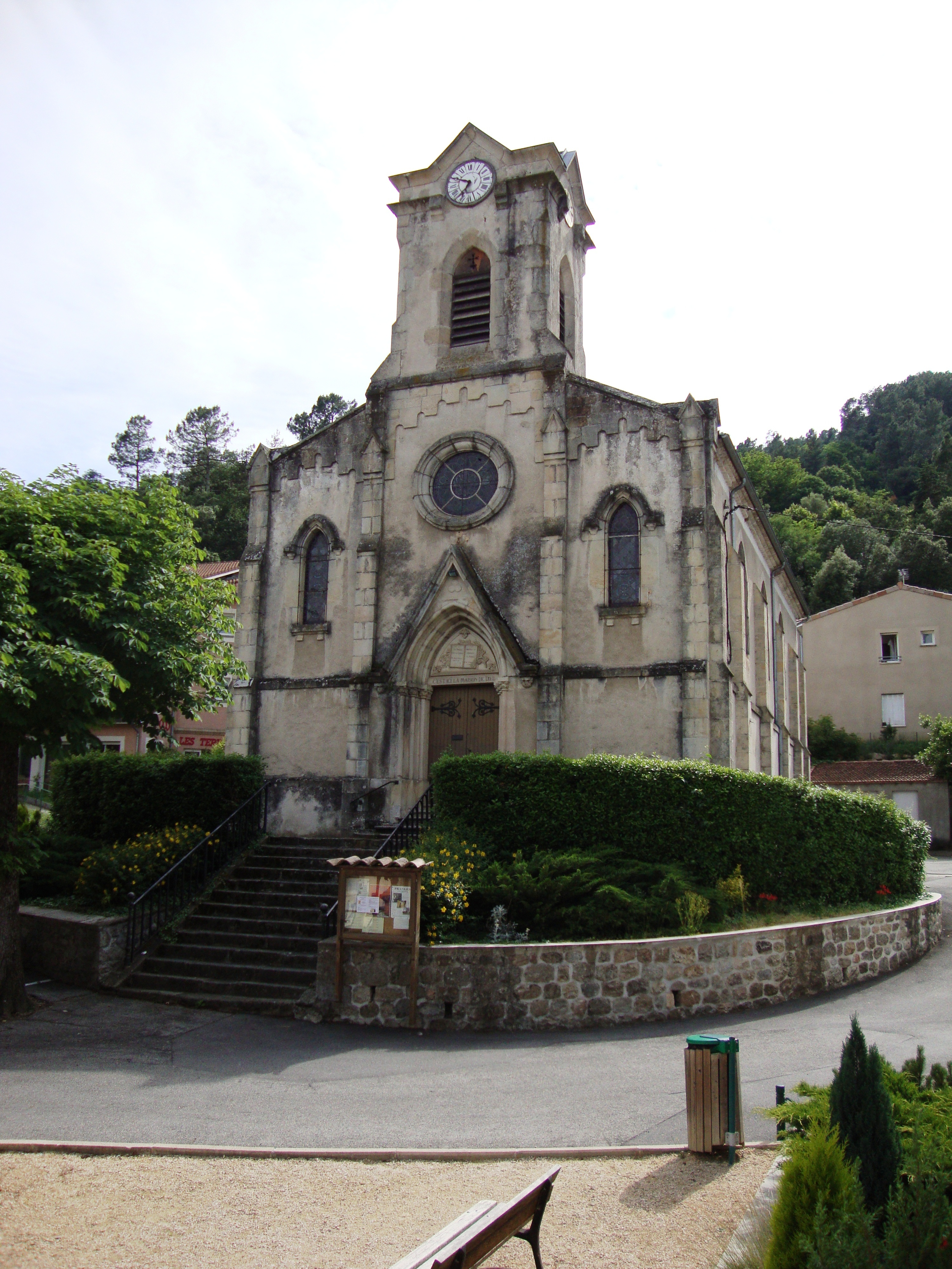 Les Ollières-sur-Eyrieux (Ardèche, Fr) church.